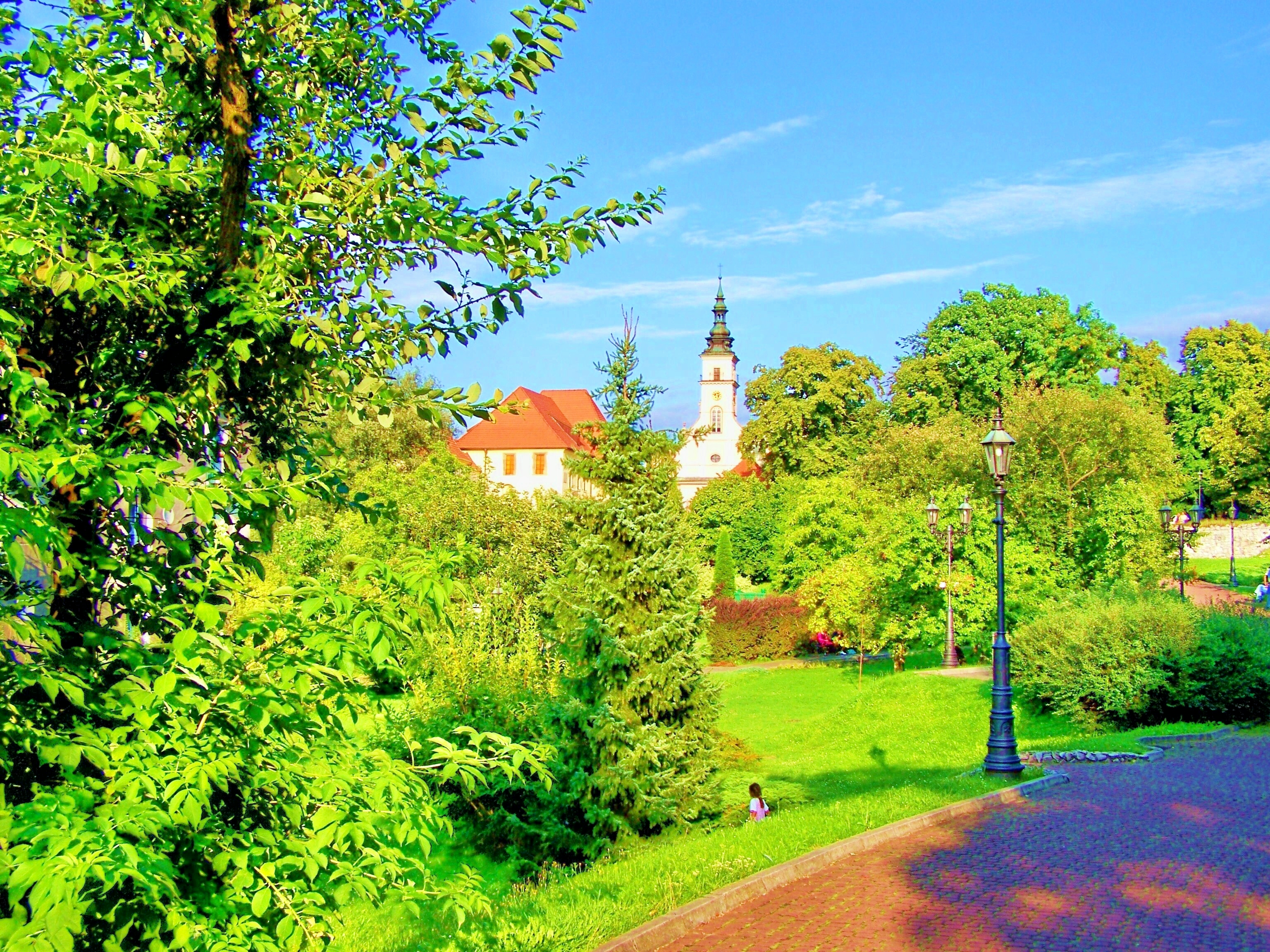 Park in Wieliczka, Poland. Church spire in background.